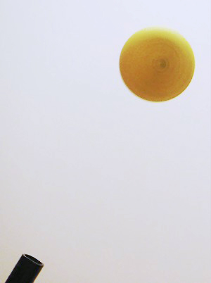 This is an astonishing demonstration of the Coandă effect. The pingpong ball “sticks“ to the lower side of an airstream: The Coandă-Effect (in combination with the Robins-Magnus-effect) deters the ball from falling down, the jet as whole keeps the ball in some distance from the jet exhaust and gravity lets the ball not be blown away. So the ball may stay in a stable position.